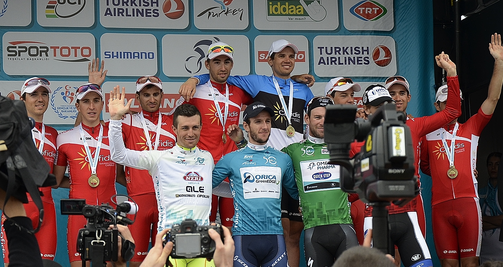 All winners of Tour of Turkey 2014